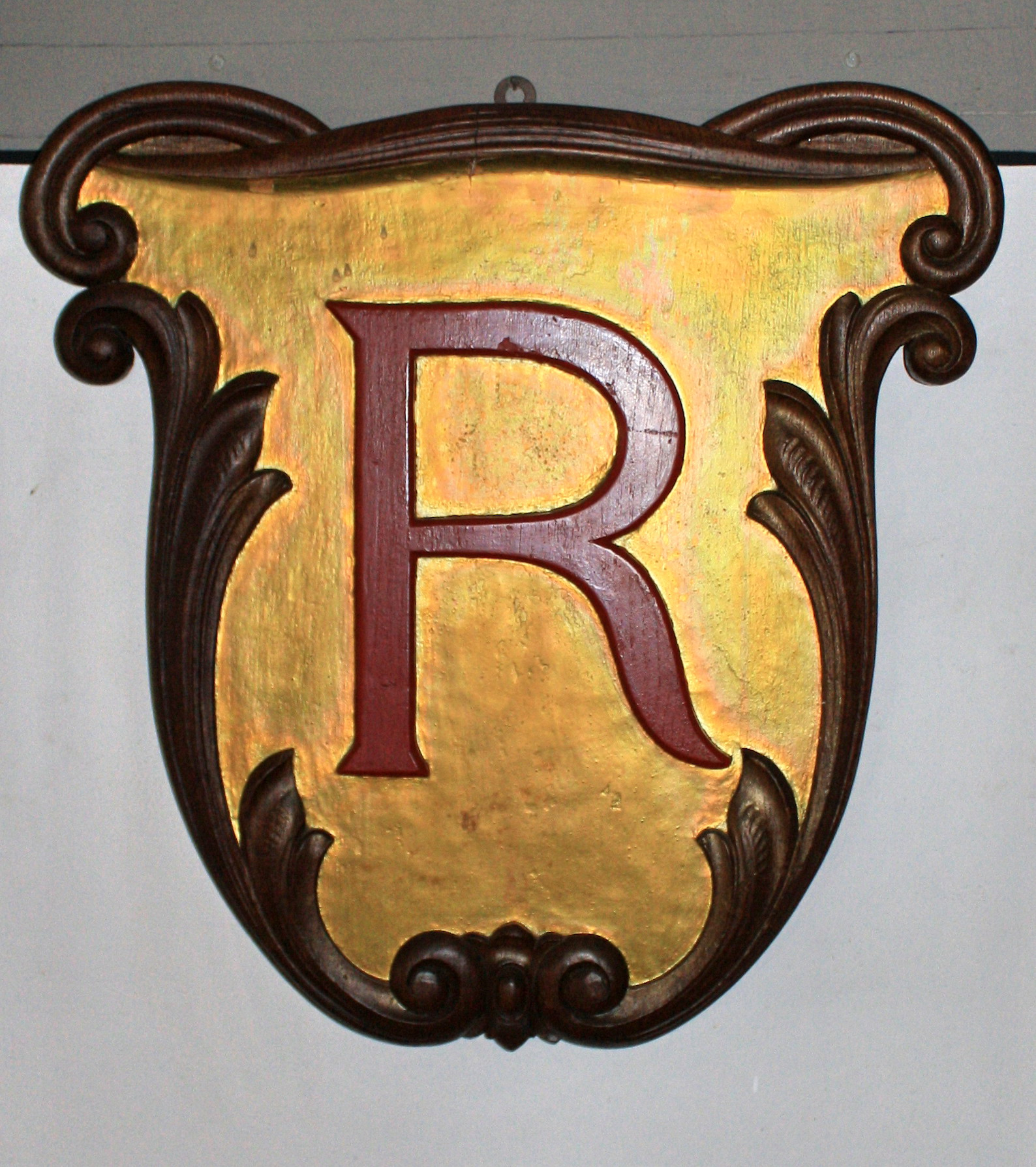 Rüti (ZH) : Former Rüti Abbey, Bailiff's house.